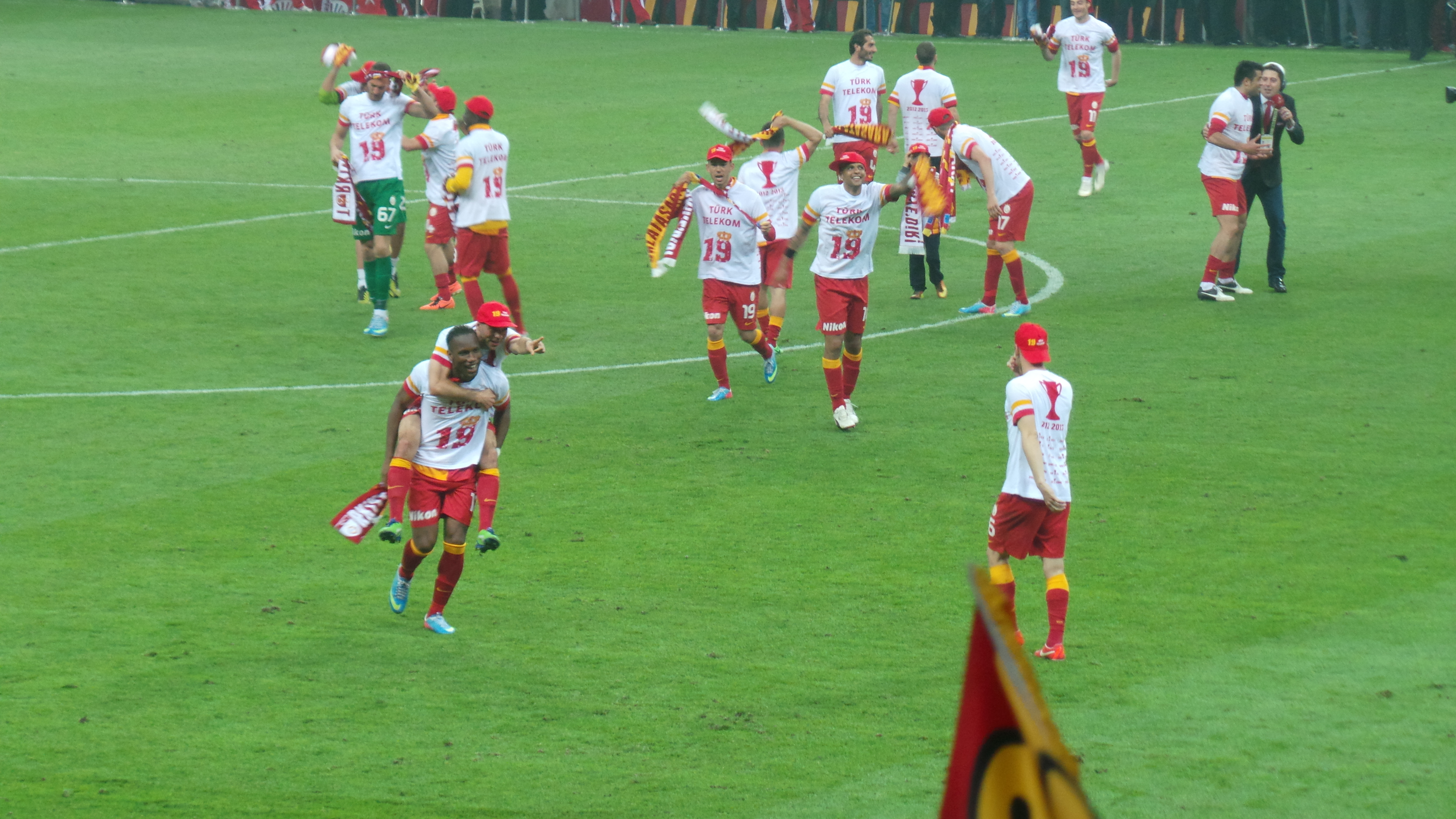 Galatasaray'ın maçın son düdüğündens sonraki sevinci